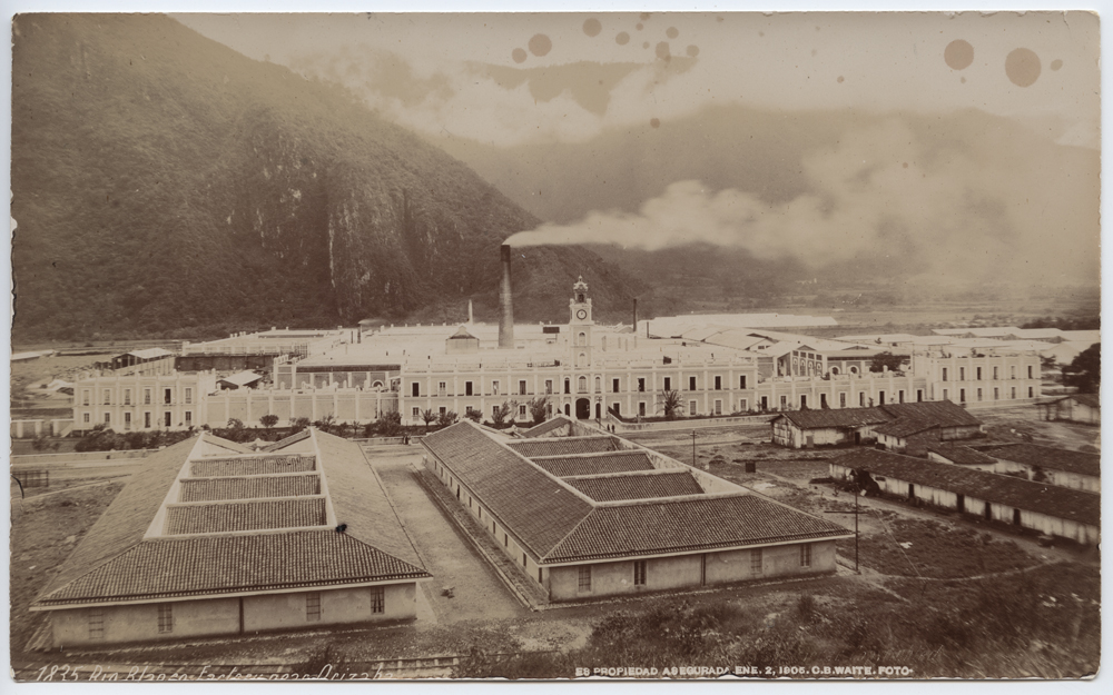 Title: Rio Blanco factory near Orizaba Creator: Waite, C. B. (Charles Betts), 1861-1927 Date: 1905 Part Of: Place: Rio Blanco, Veracruz-Llave, Mexico Physical Description: 1 photographic print: gelatin silver; 20.2 x 12.6 cm File: ag1983_0281_1835_rioblanco_opt.jpg Rights: Please cite DeGolyer Library, Southern Methodist University when using this file. A high-resolution version of this file may be obtained for a fee. For details see the web page. For other information, . For more information and to view the image in high resolution, View the